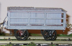 A typical narrow gauge slate wagon. This is a model of the Ffestiniog Railway's standard iron 2-ton wagon.